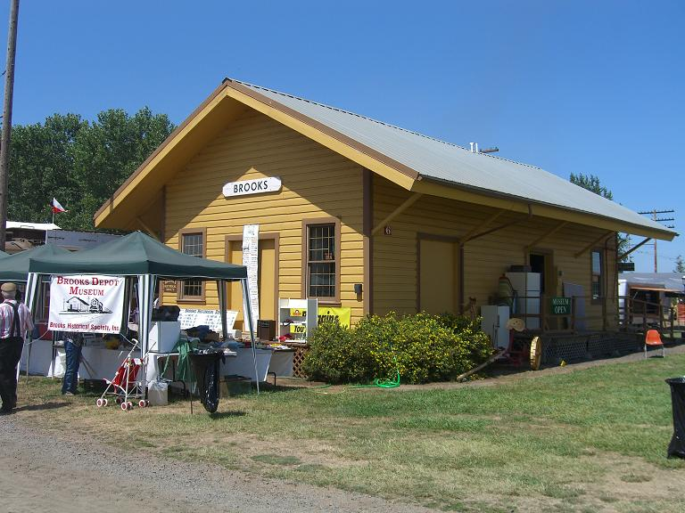 Historic Brooks railroad depot; currently on display at Antique Powerland. Photo taken by User:EngineerScotty, Aug 6 2006.